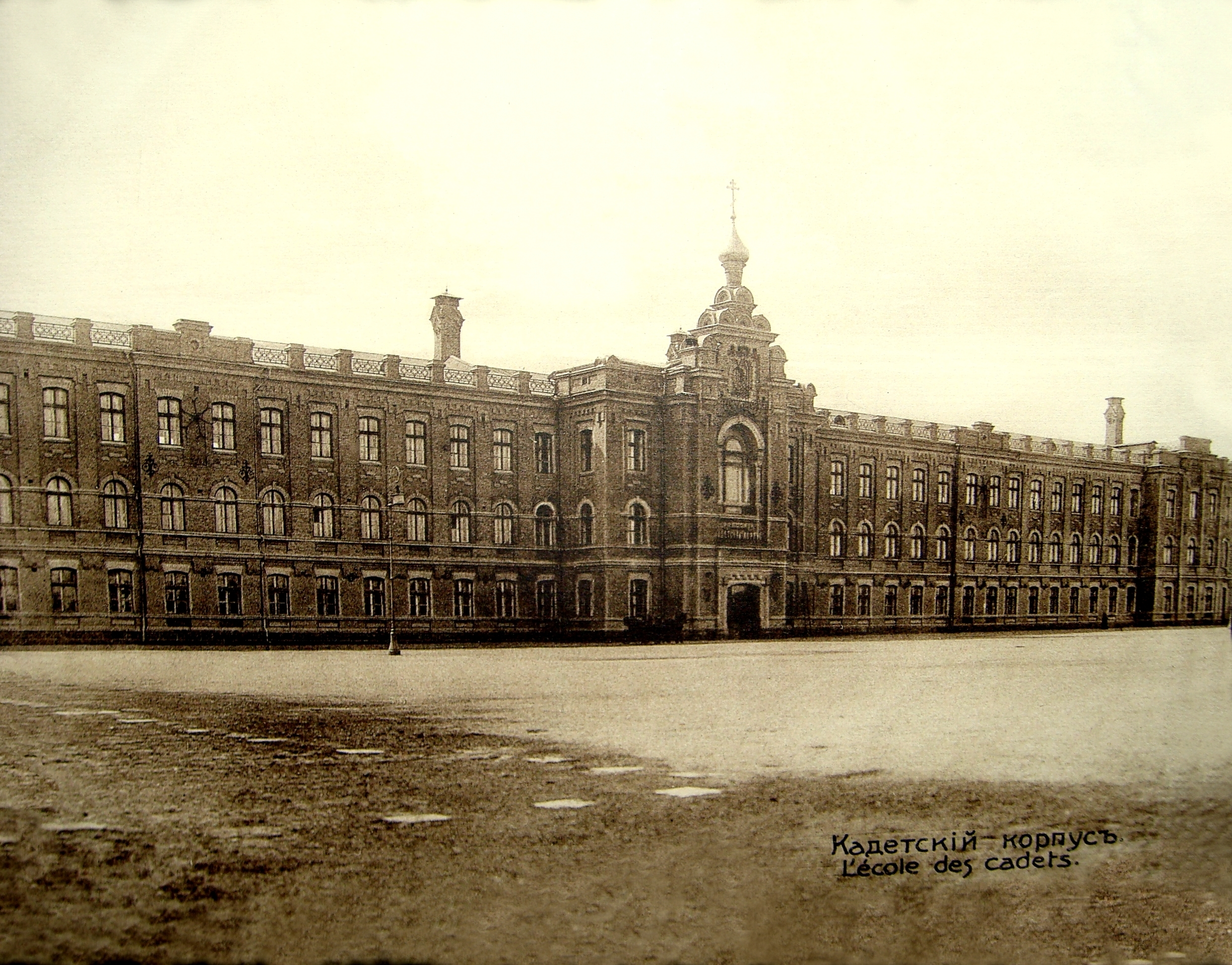 Odessa Cadet Corps.